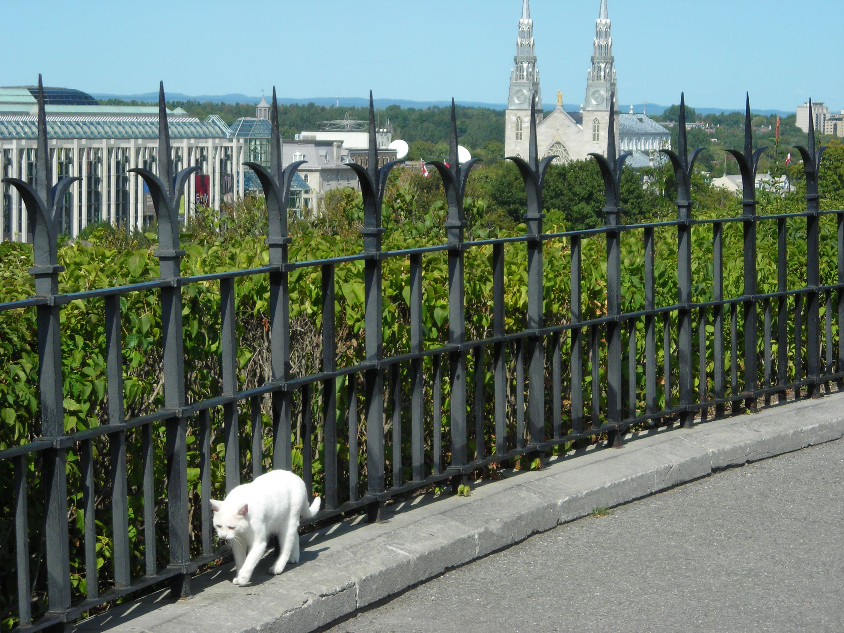 Thumbelina, one of the Canadian Parliamentary Cats, strolling on the hill. Behind one can see the National Gallery of Canada and Notre-Dame Cathedral.